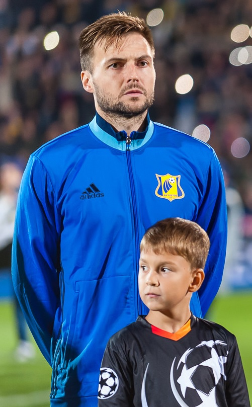 Vladimir Granat with FC Rostov before the game against PSV Eindhoven.